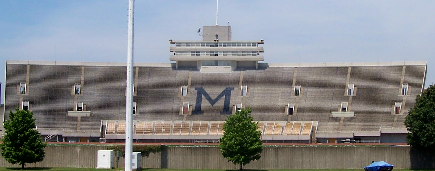 Roy Stewart Stadium in Murray, Calloway County, Kentucky